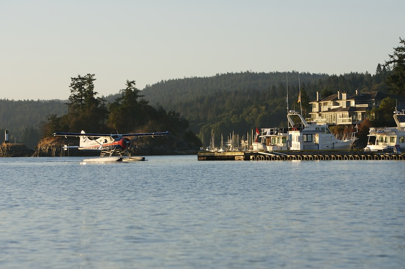 beaverfloatplane